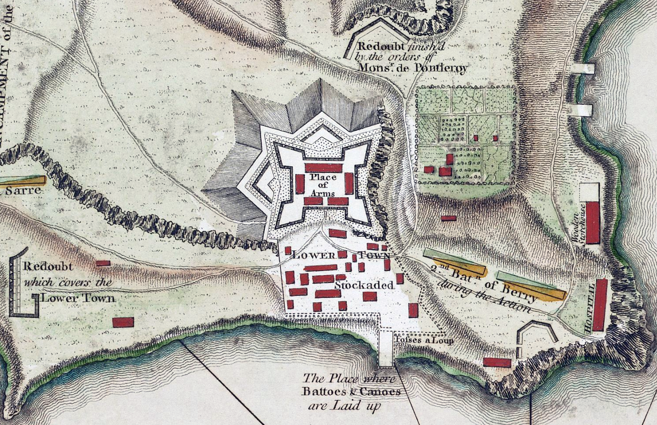 This is a detail and also is a source of information for fort ticonderoaga battle projects from the source map showing the layout of Fort Ticonderoga (then known as Fort Carillon) in 1758.